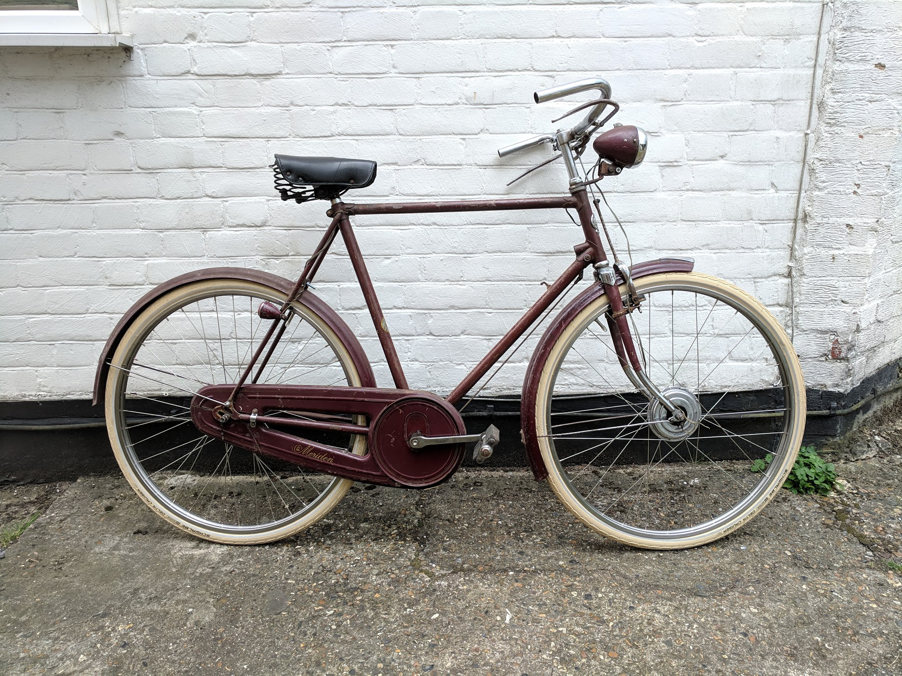 A photo of a 1954 BSA built New Hudson Meriden de Luxe Tourist bicycle, photographed after light restoration